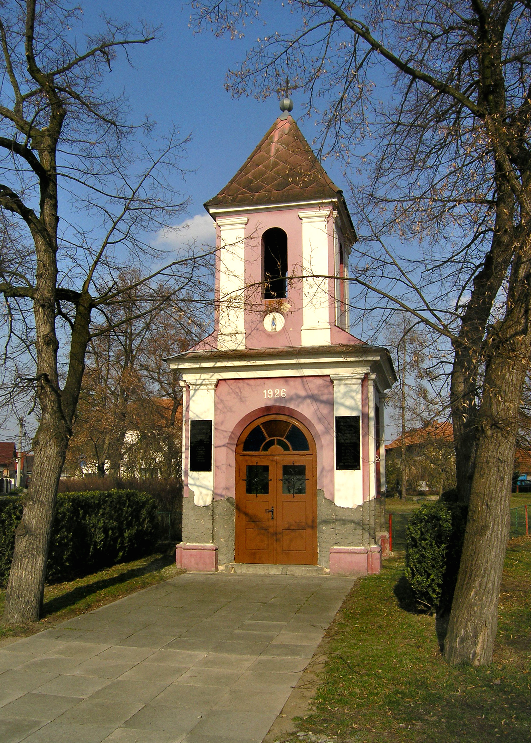 Chapel in Tuahň village, Czech Republic